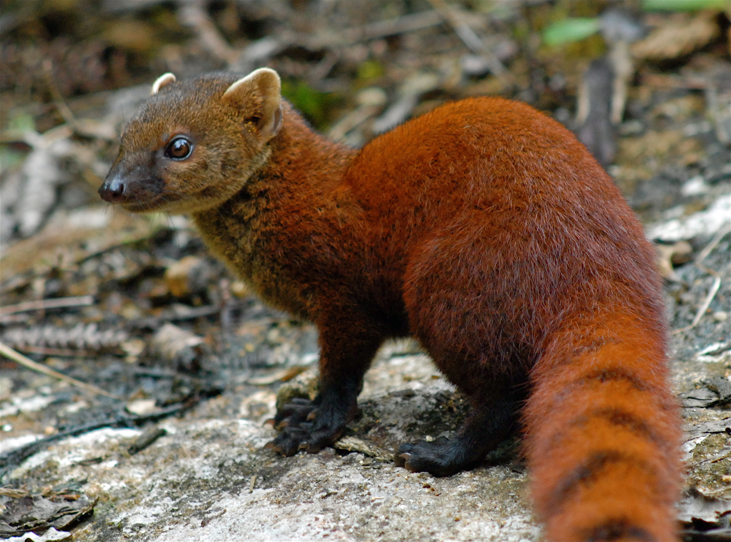 Ring-tailed mongoose (Galidia elegans), Madagascar